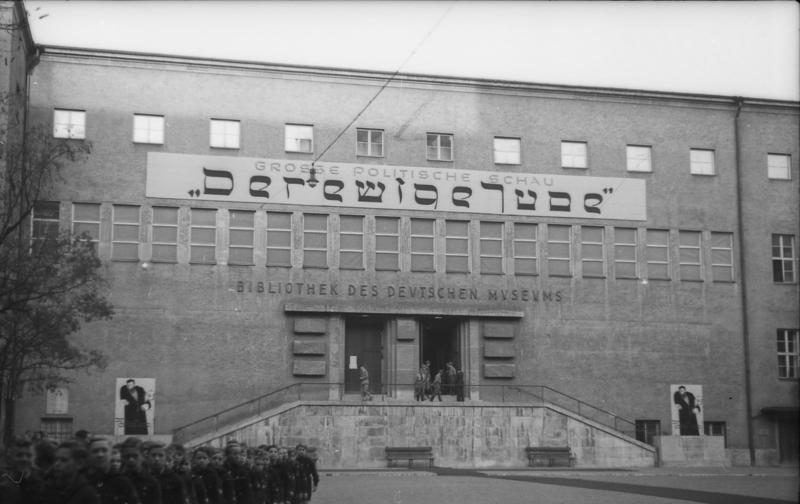 Munich, "The Eternal Jew" exhibition. München.- Ausstellung "Der ewige Jude" im Deutschen Museum, 7. - 8.11.1937. Plakate an der Fassade English -- "The eternal Jew" exhibition at the German Museum, November 7 to 8, 1937, banner on the facade.